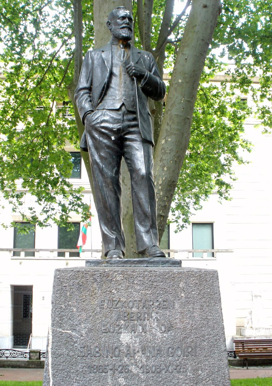 Monumento a Sabino Arana, en los Jardines de Albia, Abando, Bilbao